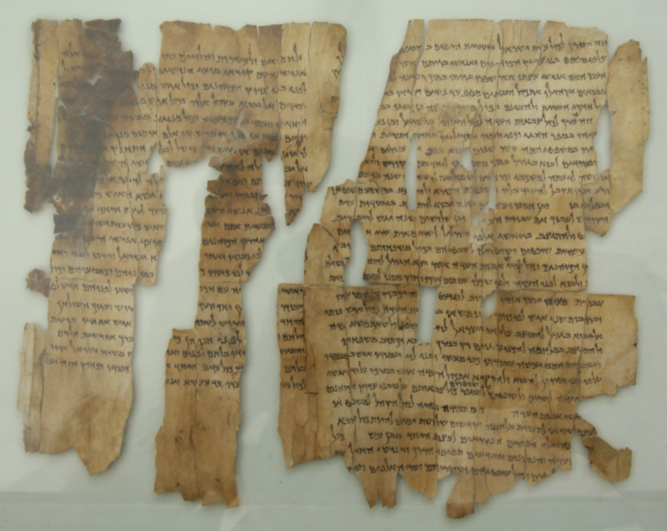 Jordan, Amman, Dead Sea Scroll 1Q28